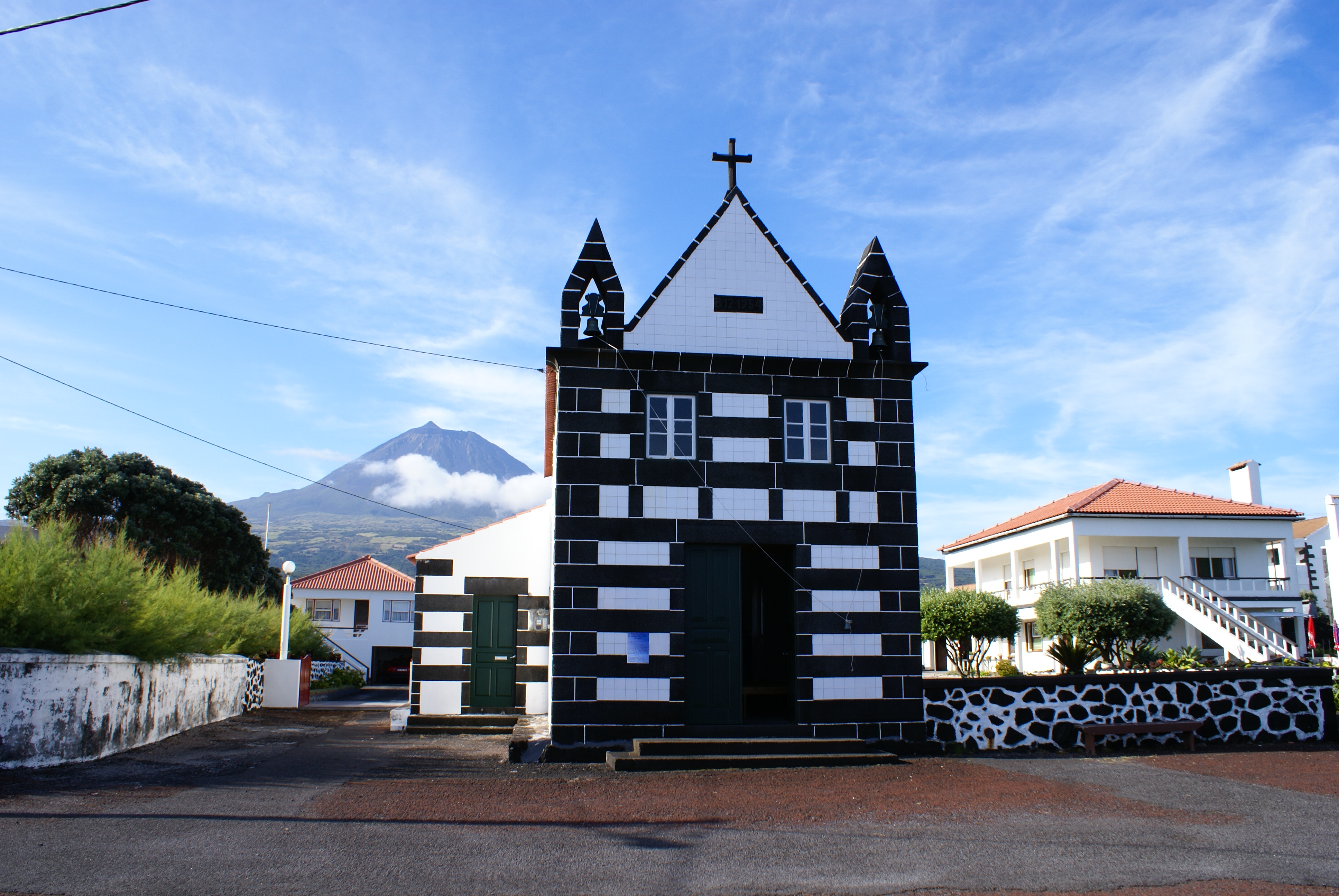 The Chapel of Rainha do Mundo, in Largo dos Arcos de Santa Luzia, Santa Luzia, São Roque do Pico, Pico (Azores), Portugal